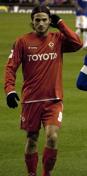 Pablo Daniel Osvaldo Fiorentina